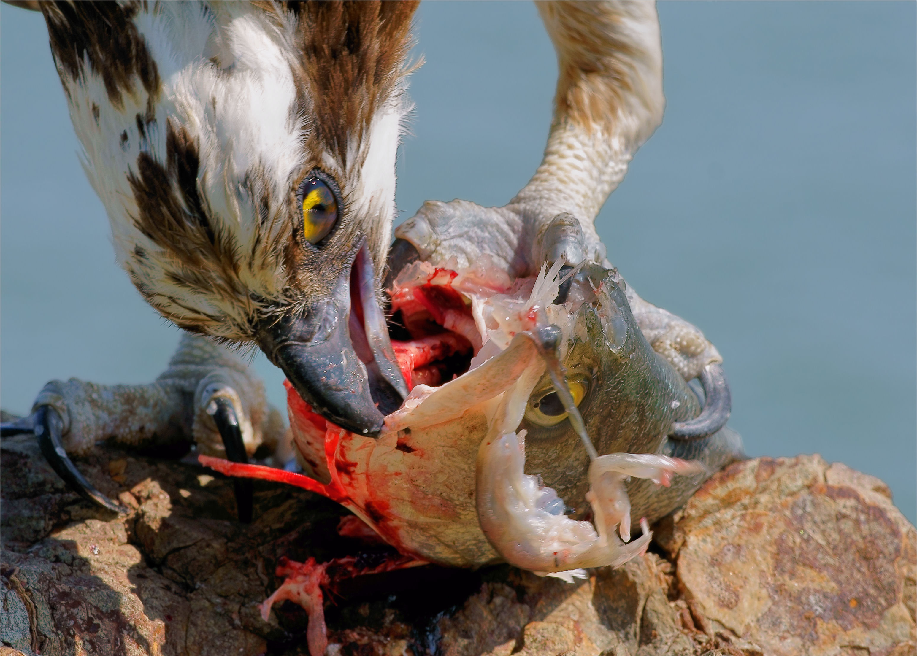 An Osprey eating a fish in San Francisco Bay, California, USA.